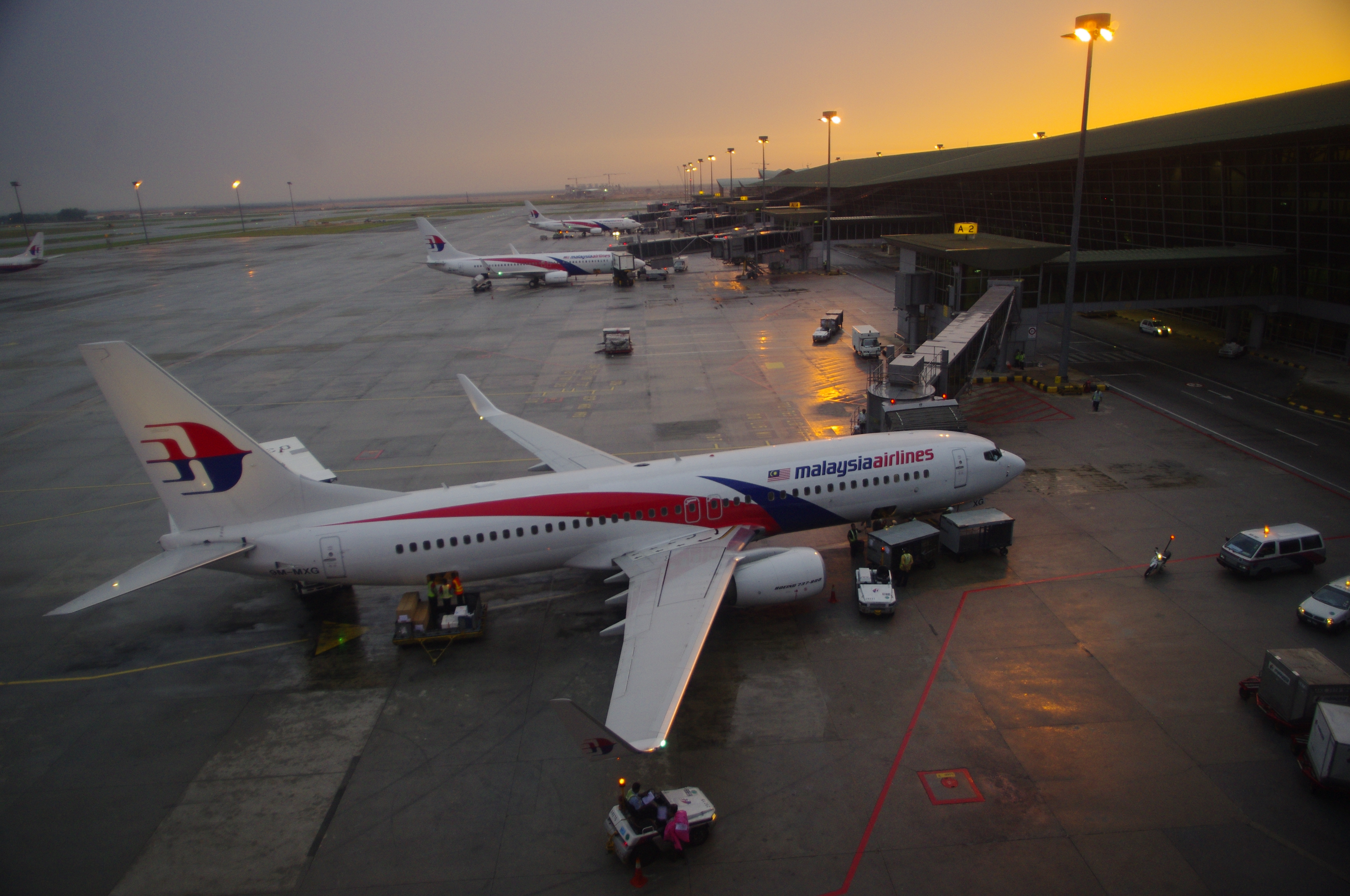 Boeing 737-800 on Kuala Lumpur International Airport